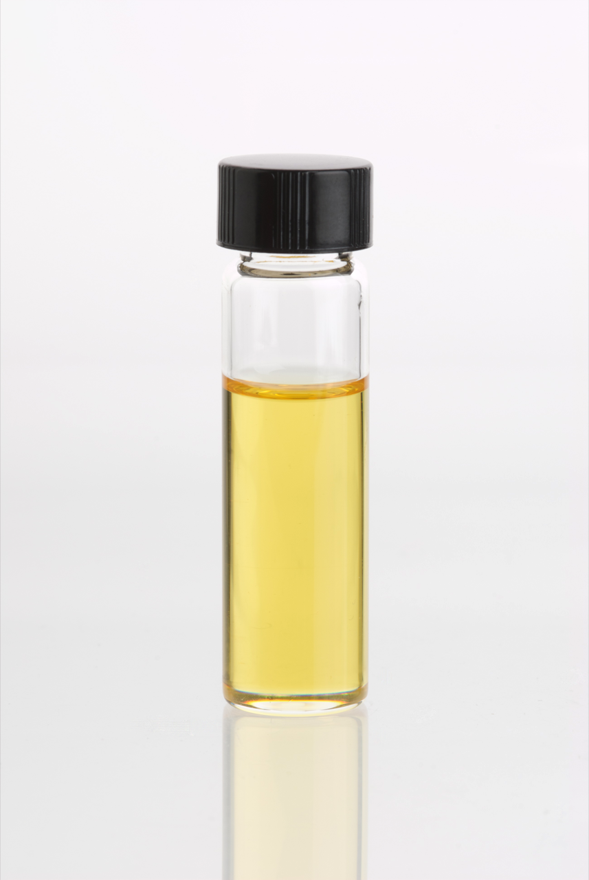 Glass vial containing Lemongrass Essential Oil